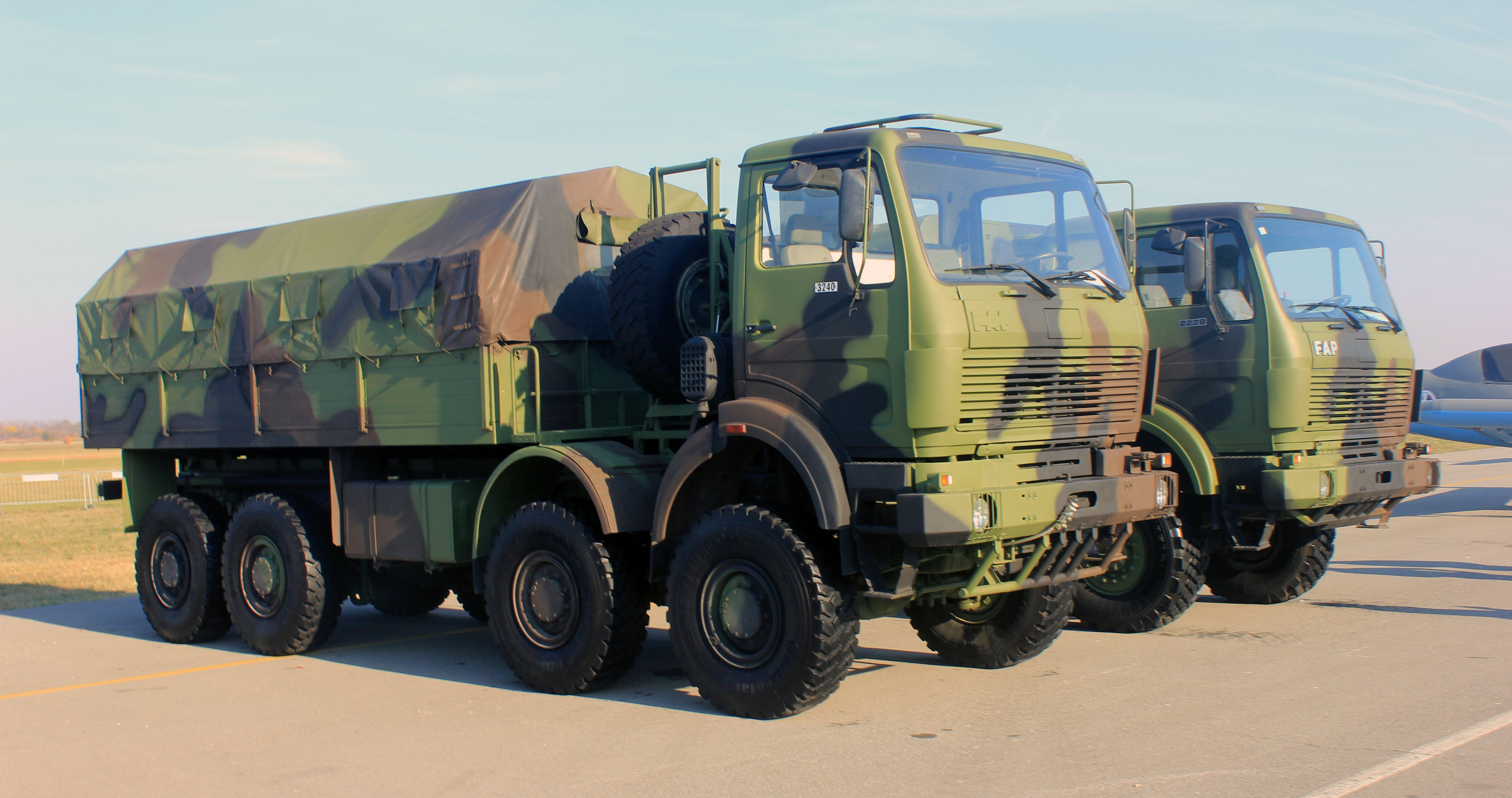 FAP 3240 BS/AV 8x8 and FAP 2228 BDS/AV 6x6 army trucks on display at Batajnica Air Base during the Belgrade liberation day celebration and "Sloboda 2017" military exercise.